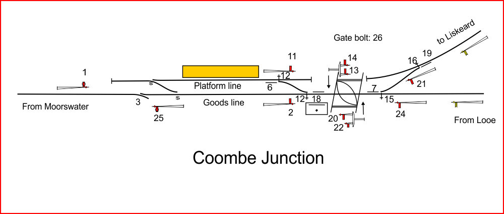 Diagram of Coombe Junction signalling in the period 1930(?) to 1956; Cornwall, England